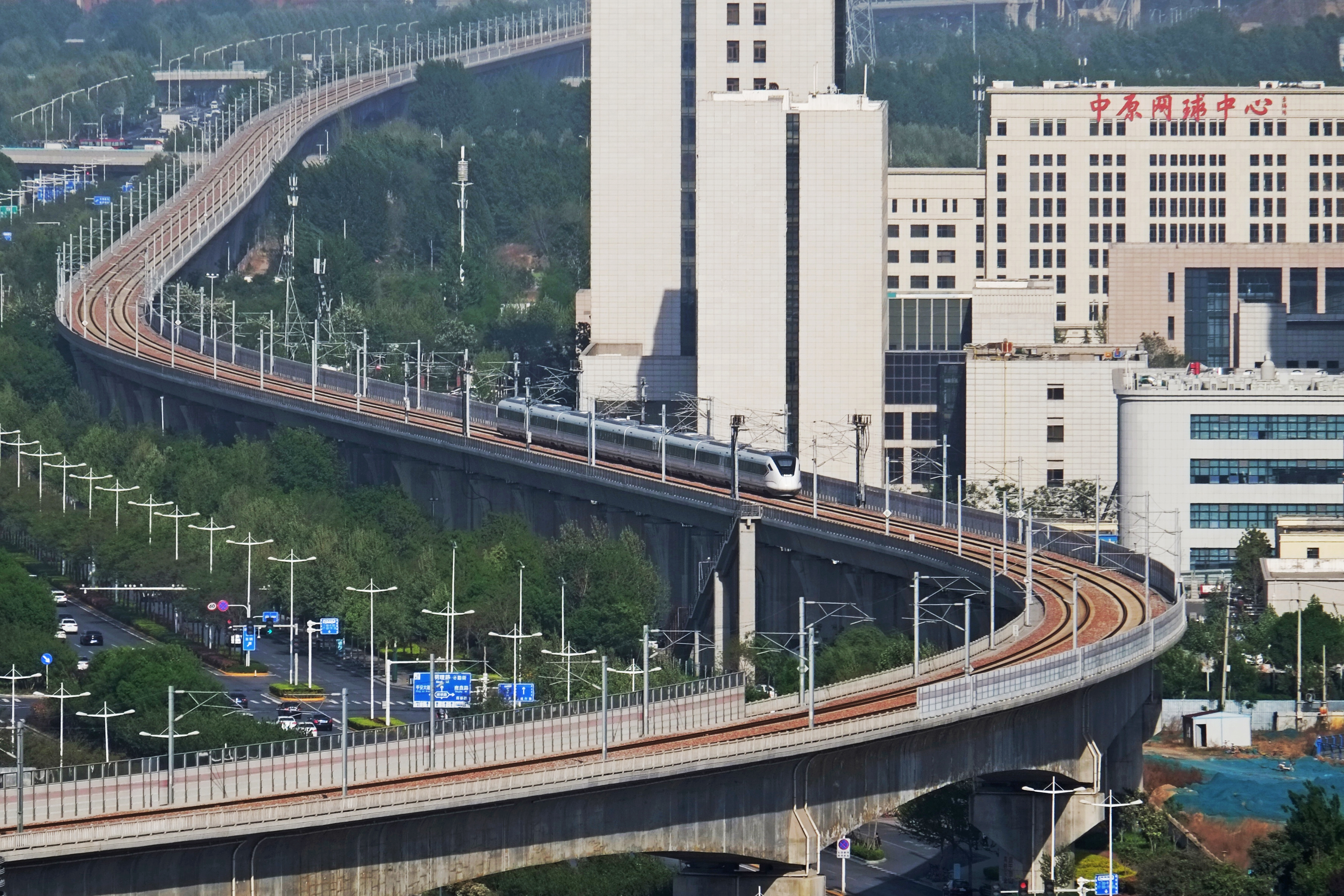 CRH6A-0428 on Zhengzhou-Kaifeng ICR